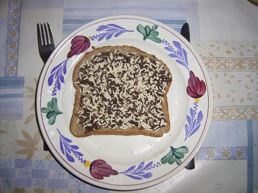 Hagelslag, traditional dutch treat to be used on a slice of bread.